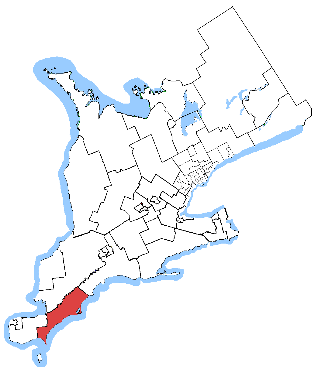 Map of the Chatham-Kent—Essex electoral district. Based on Earl Andrew's maps, created by SimonP.